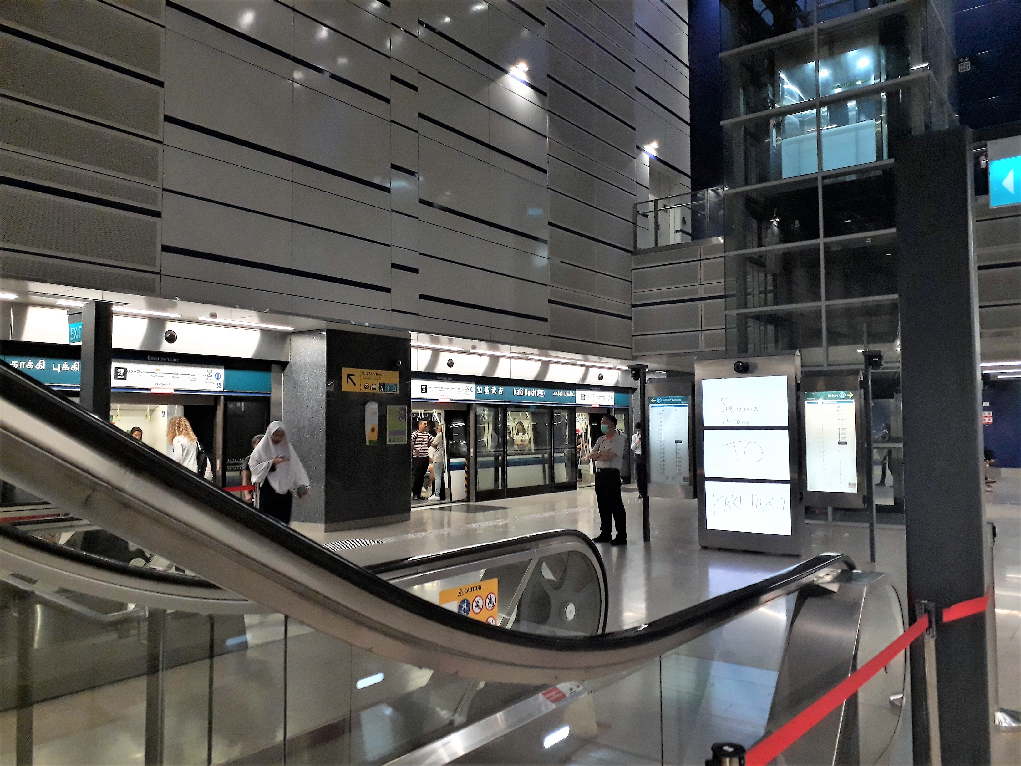 Kaki Bukit platform level